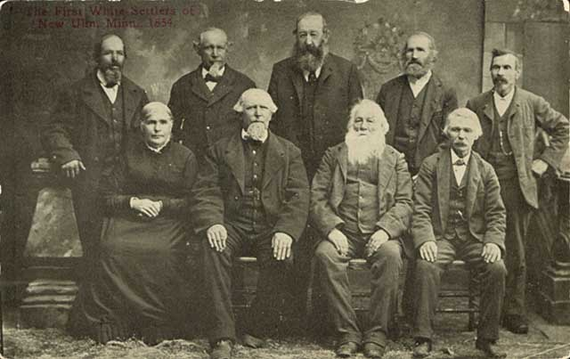 First white settlers of New Ulm, Minnesota